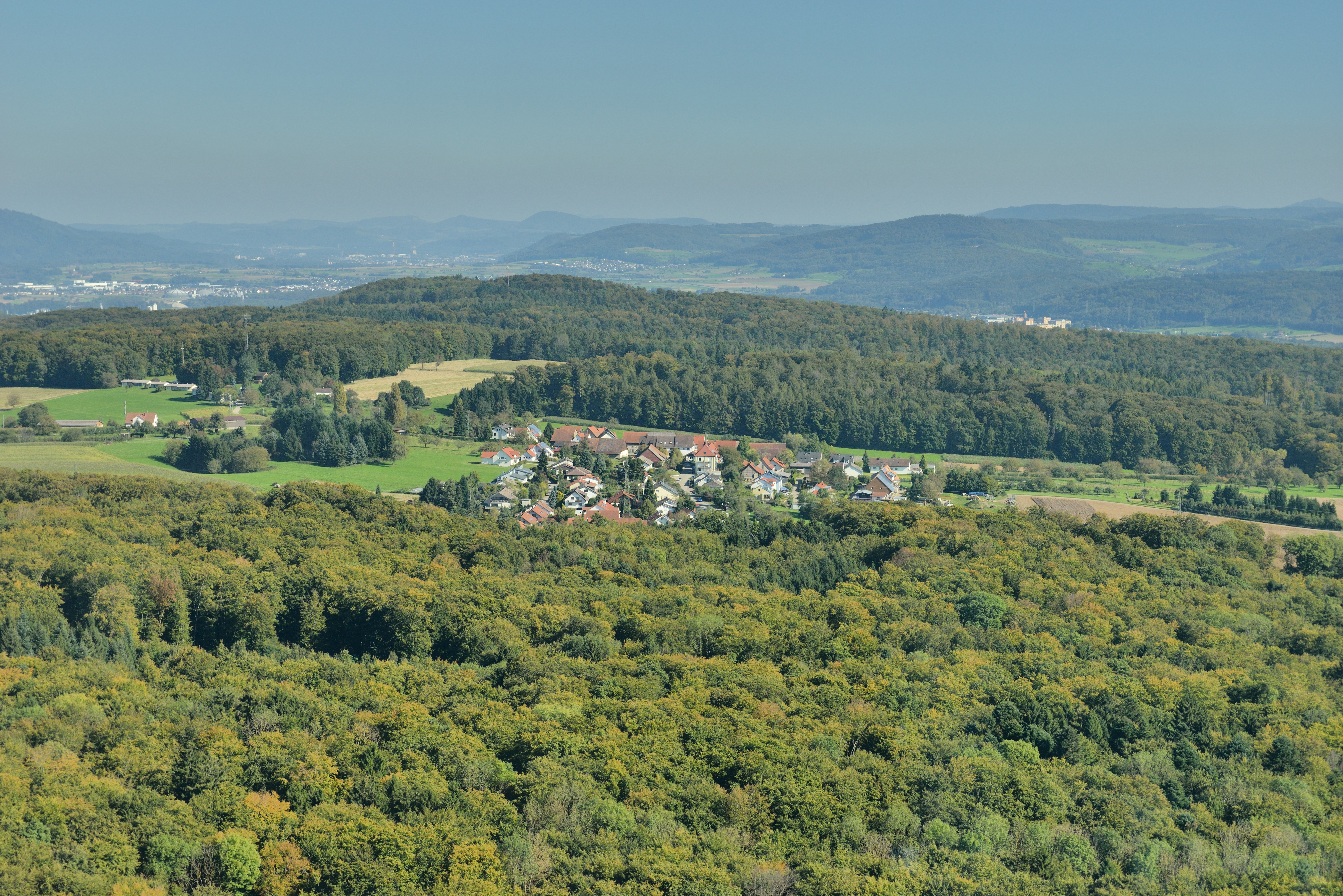 Eastwards view from TV Tower St. Chrischona